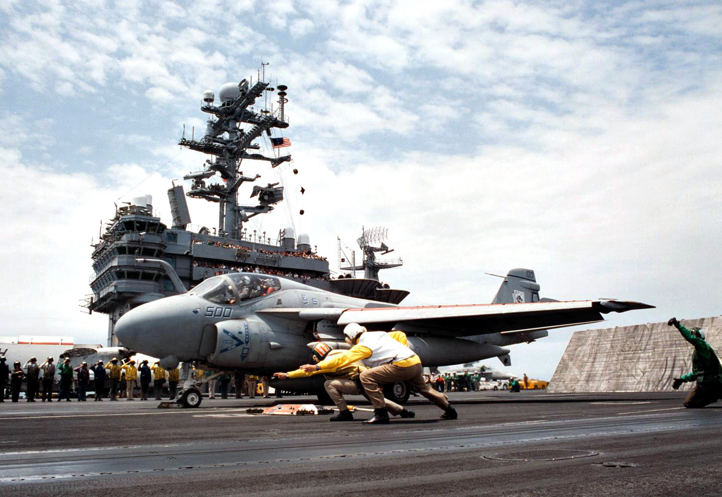 Virginia Governor George Allen (center white vest) launches the final Grumman A-6E Intruder (BuNo 160998) from the flight deck of aircraft carrier USS George Washington (CVN-73) on 22 July 1996. Crewed by U.S. Navy Captain Kolin M. Jan, Commander Carrier Air Wing 7 (CVW-7), and Commander David Buss, Commanding Officer Attack Squadron 34 (VA-34) "Blue Blasters", the aircraft was the last to launch from the deck of George Washington after a deployment to the Arabian Gulf and Mediterranean Sea from 26 January to 23 July 1996. This was the final deployment for VA-34 flying the A-6 Intruder. The squadron began training on the McDonnell Douglas F/A-18C Hornet aircraft shortly after its return.